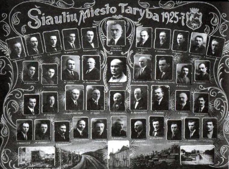 Šiauliai city council 1925-1927, Lithuania (Museum Aušra)